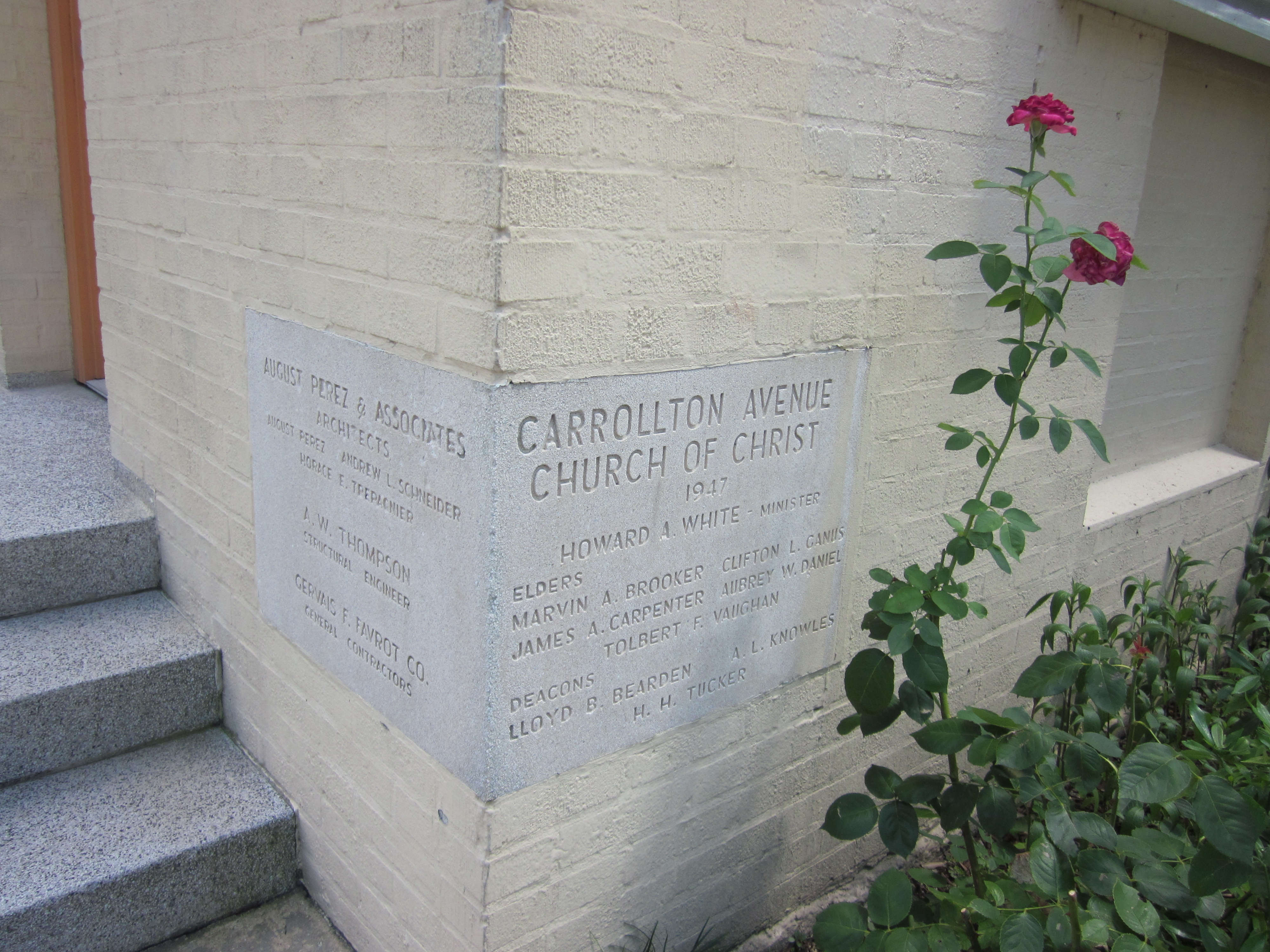 Carrollton Avenue, Mid-City New Orleans Church of Christ cornerstone.